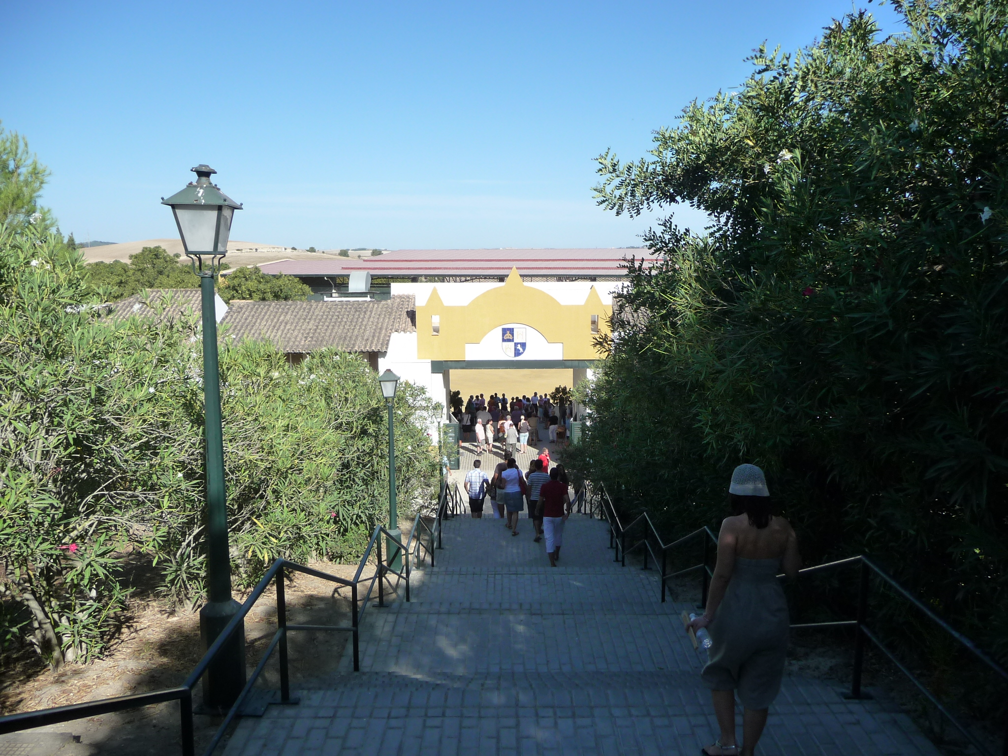 Horse farm in Jerez YeguadaHierroBocado